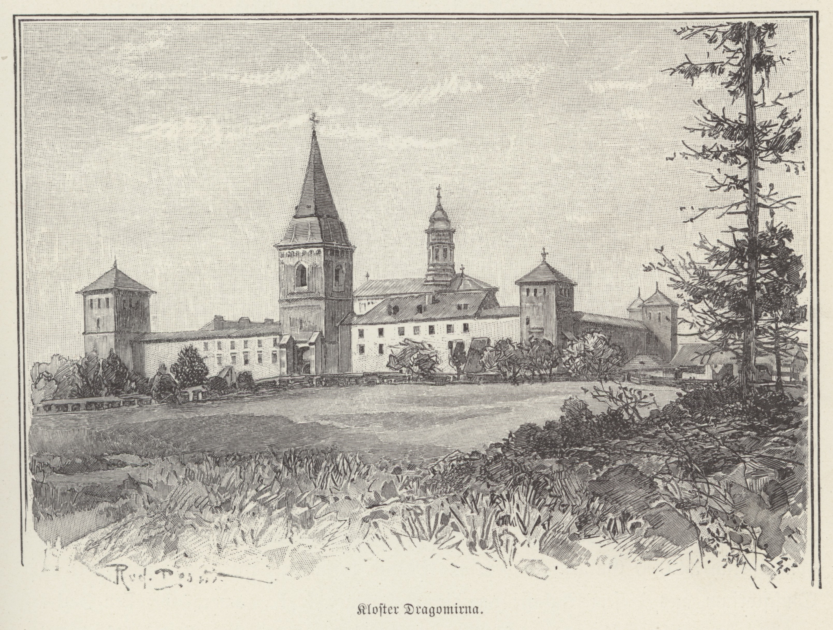 Dragomirna Monastery approx. 1899.